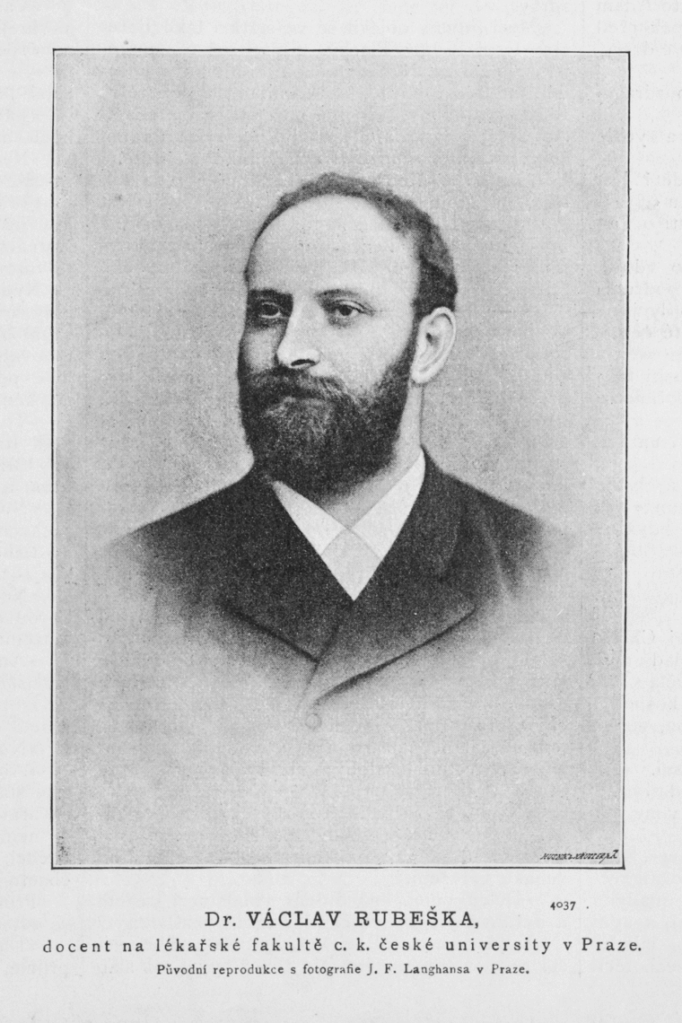 Portrait of Václav Rubeška (1854-1933), Czech professor of gynecology.